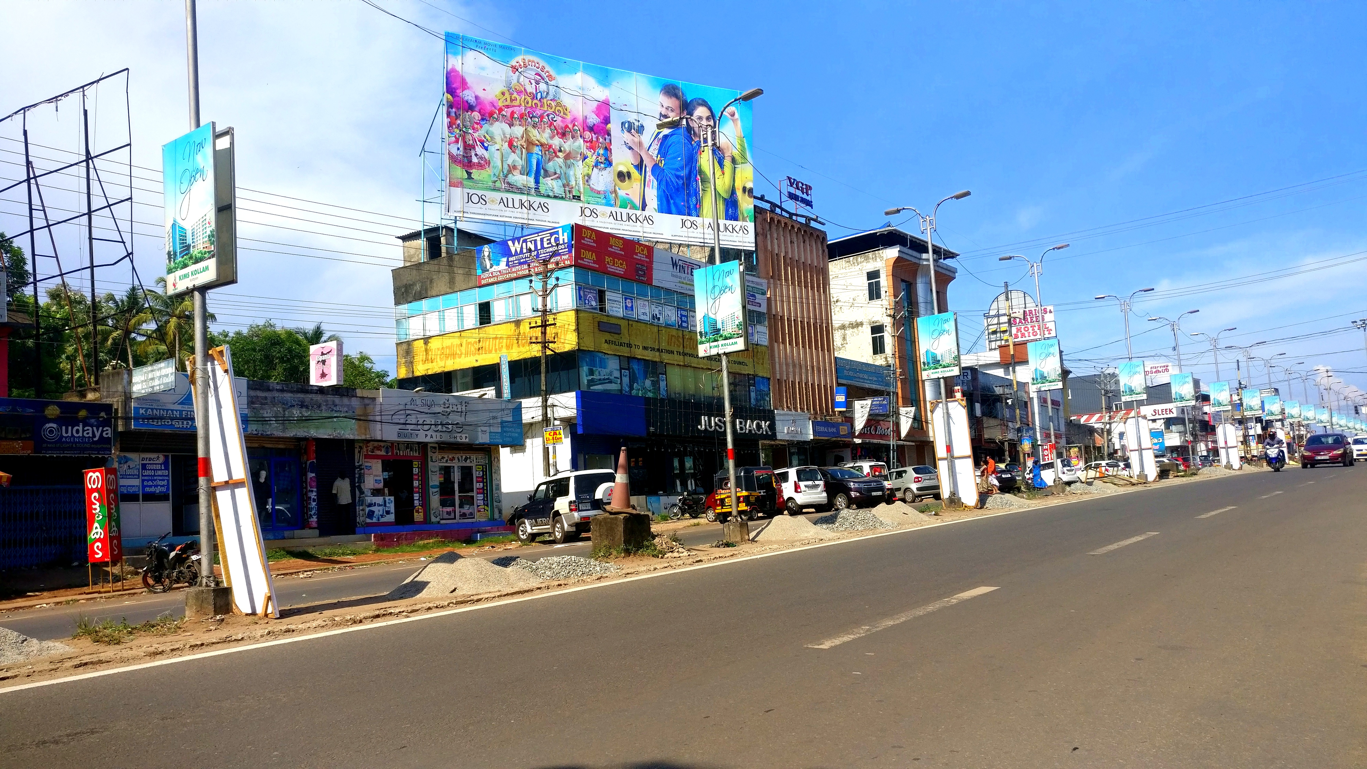 Kottiyam is an urban center close to Kollam city